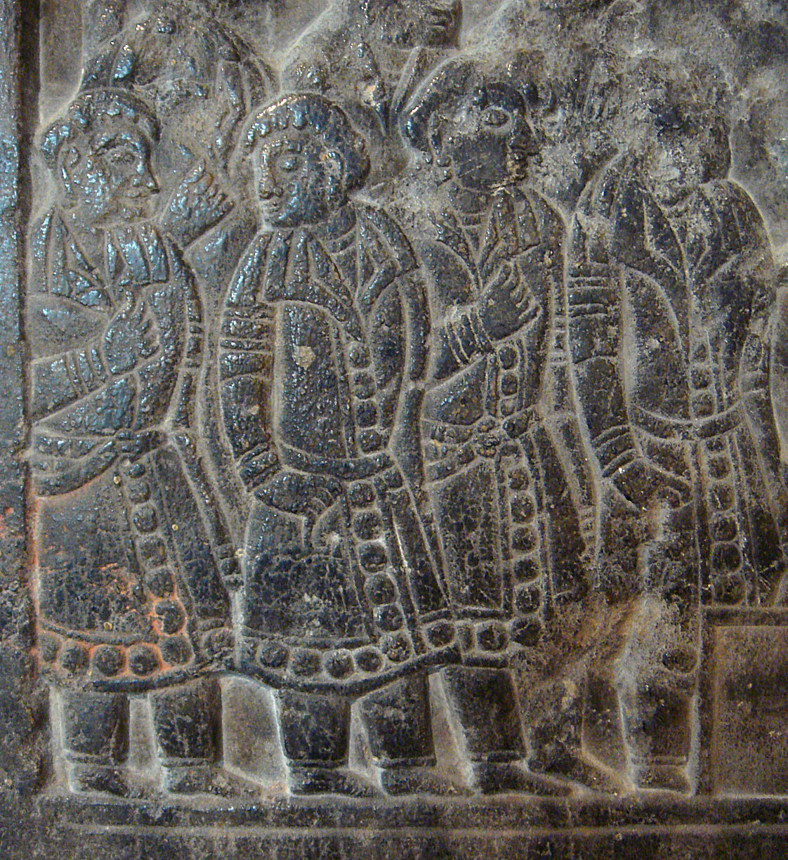 Detail of a limestone slab depicting Sogdian festivities from a funerary couch (Northern Qi dynasty, 550–577 CE) found near Anyang, Henan, held by Musée National des Arts Asiatiques-Guimet in Paris.